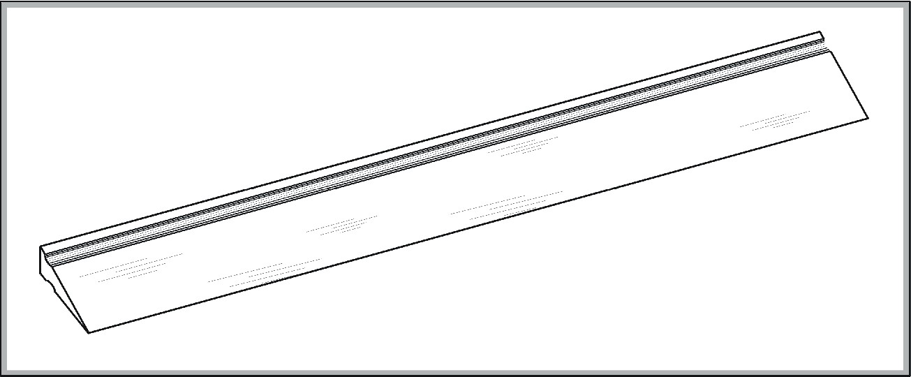 A sabel, used by a mason.